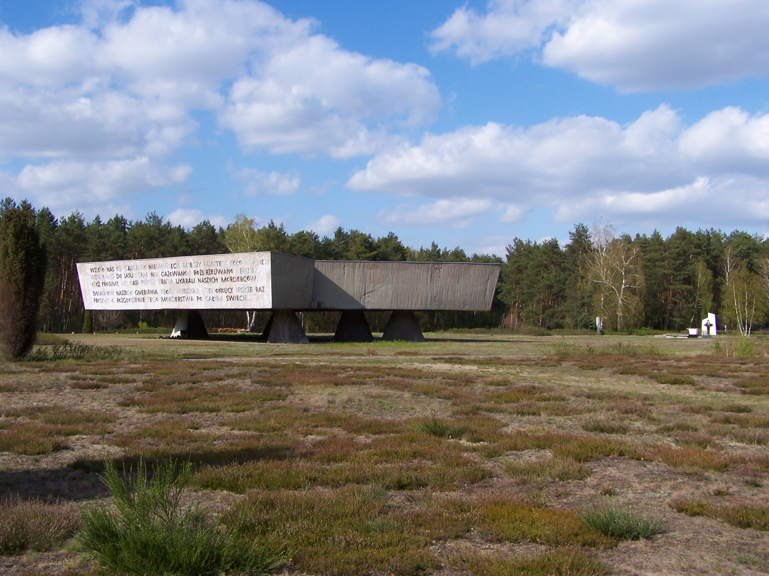 Chelmno Nazi extermination camp.